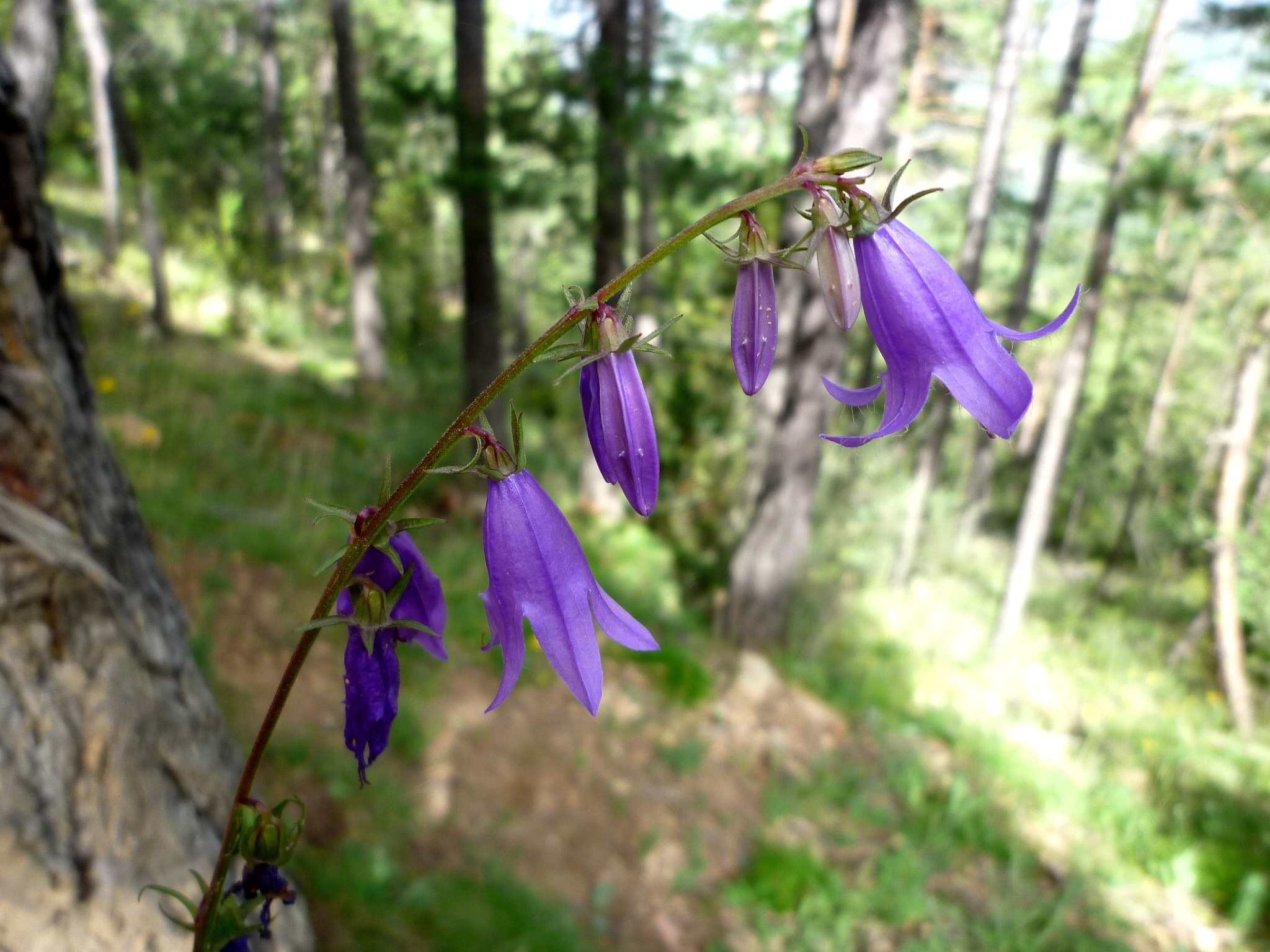 Campanula rapunculoides. In la Bòfia, La Vansa (Alt Urgell - Catalunya). To 1.510 m. altitude